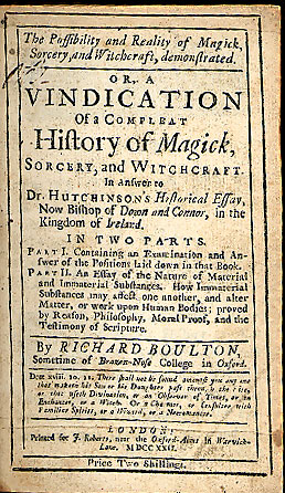 Title page of Richard Boulton's The Possibility and Reality of Magick, Sorcery and Witchcraft, demonstrated. Originally uploaded by User:Geogre on 15:32, 21 October 2005 at with comment: "(Title page to Francis Hutcheson's treatise on the occult and magic.)". Copied from Wikipedia: "This image appeared on Wikipedia's Main Page in the Did you know? column on 25 October 2005."